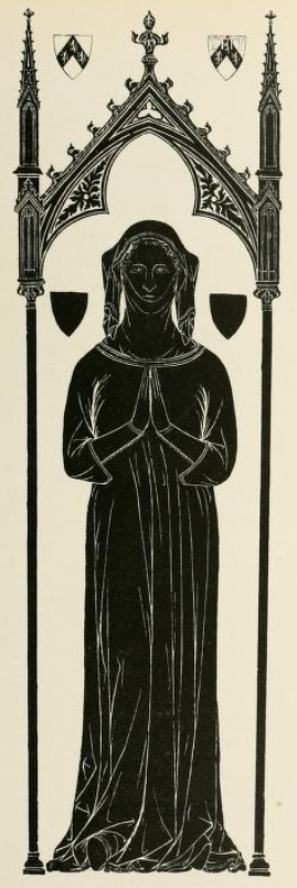 Monumental brass, laid down in 1320, St Mary Magdalene's Church, Cobham, Kent, of Joan Septvans (Died 1298), wife of John de Cobham (d.1300) of Cobham and of Cowling (Cooling Castle), Kent, and mother of Henry de Cobham, 1st Baron Cobham (c.1260-1339). Daughter of Sir Robert Septvans of Chartham. Text from: Belcher, William Douglas, Kentish Brasses, Vol.1, 1881, no.59, p.31: This is one of the earliest known specimens of a canopy, and there is only one other brass of a lady earlier, that of Lady-de-Camoys, Trotton, Sussex. The canopy rises from slender shafts, terminating in pinnacles, and is crocketed and crowned with a finial ; beneath it is cusped in a large and bold trefoil having the spandrels foliated. The inscription, which is in Longobardic letters, (in Leonine verse) runs thus: Dame Jone de Kobeham gist isi, Deus de sa alme eit merci. Ki ke pur le alme priera, Quaraunte jours de pardoun auera. ("Dame Jone de Cobham lies here, may God have mercy on her soul. Whosoever shall pray for her soul shall have forty days of pardon")